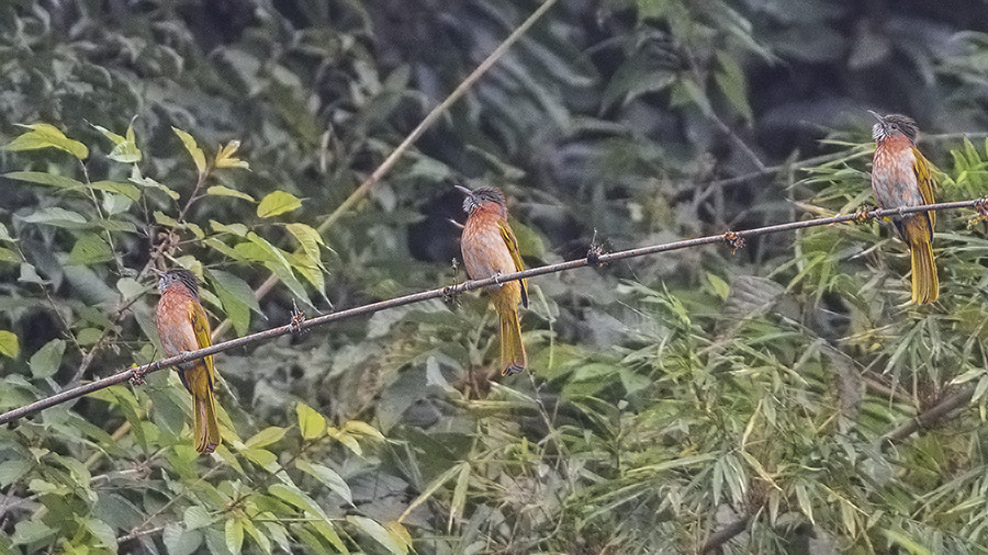 The species Mountain Bulbul had been photographed during the birding trip of GoingWild in Pangolakha Wildlife Sanctuary in East Sikkim, Sikkim, India on 12.12.2015.